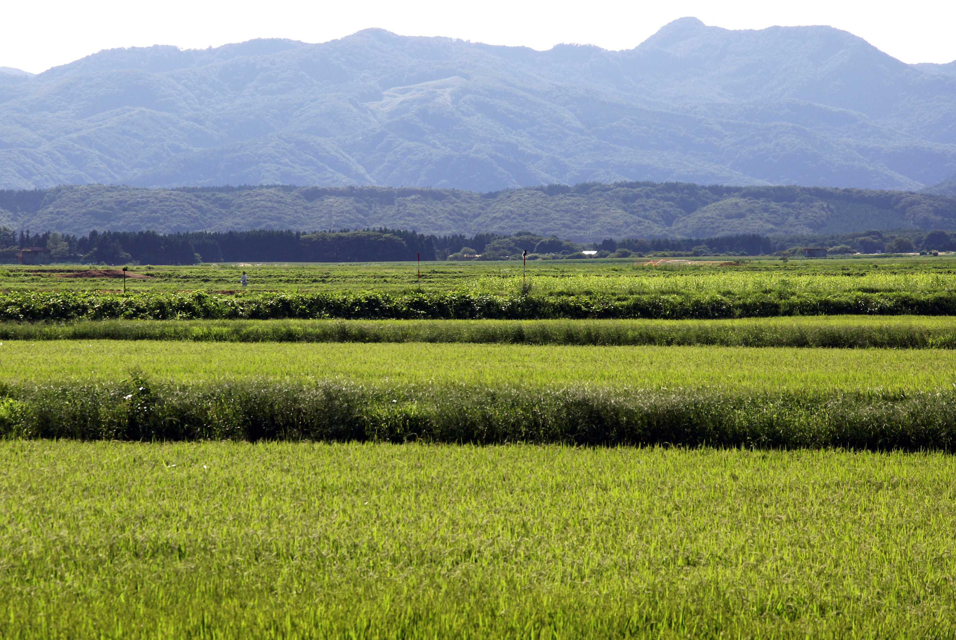 Hanamaki, Iwate prefecture, Japan